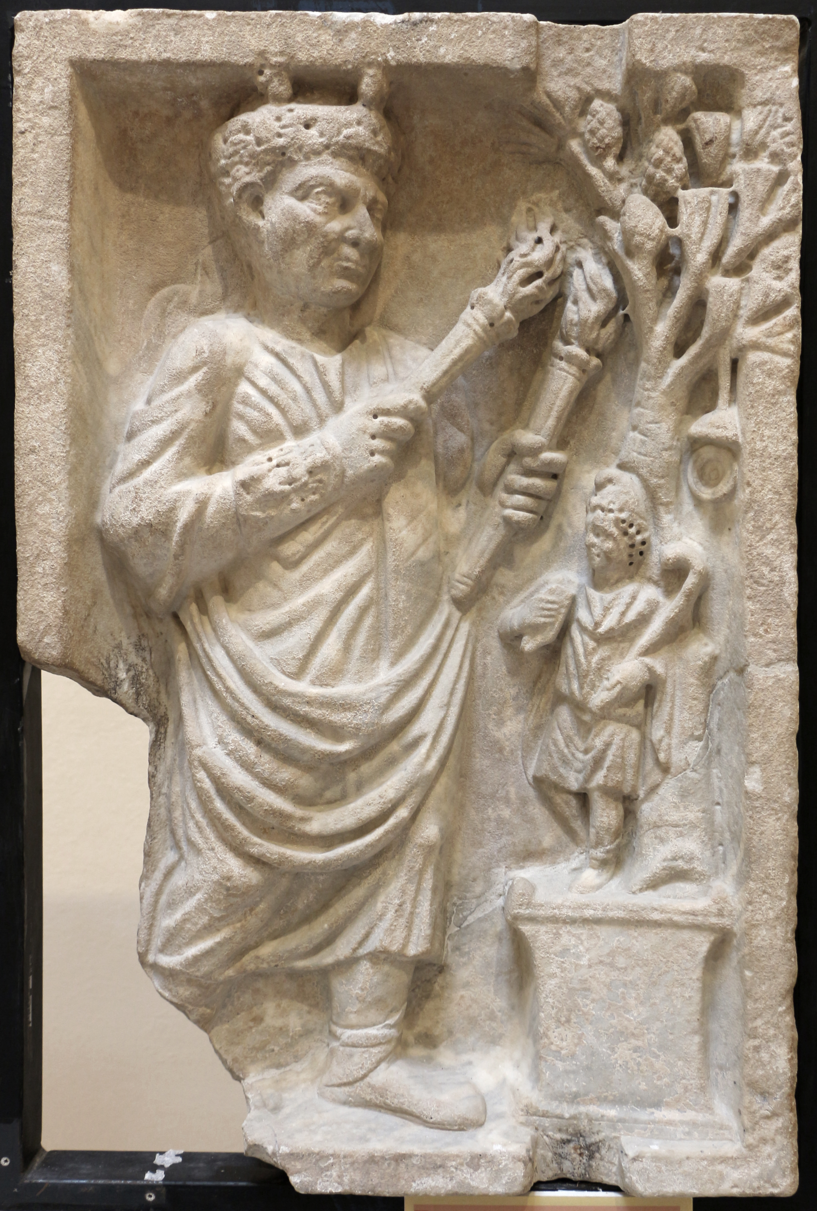 Ancient Roman reliefs in the Museo Ostiense (Ostia Antica)